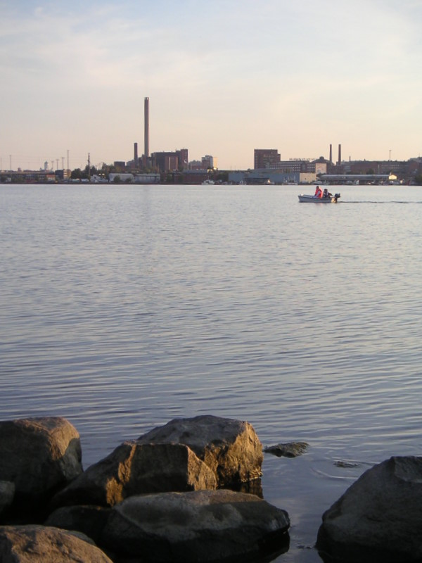 A view from Kivinokka to Vanhankaupunginlahti in Herttoniemi, Helsinki, Finland